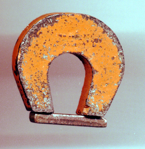 A "horseshoe" magnet made of Alnico, an alloy of iron, aluminum, nickel, and cobalt. Probably around 1 inch (3 cm) long. It is made in a "horseshoe" shape to bring the North and South poles of the magnet close together, creating a strong magnetic field between them. The metal plate between the poles at bottom is called a "keeper". It is left on the magnet when not in use, to prevent the magnet becoming demagnetized. By creating a closed magnetic circuit, it strengthens the magnetic flux in the magnet, making it harder for mechanical shocks or high temperatures to randomize the magnetic domains of the metal.